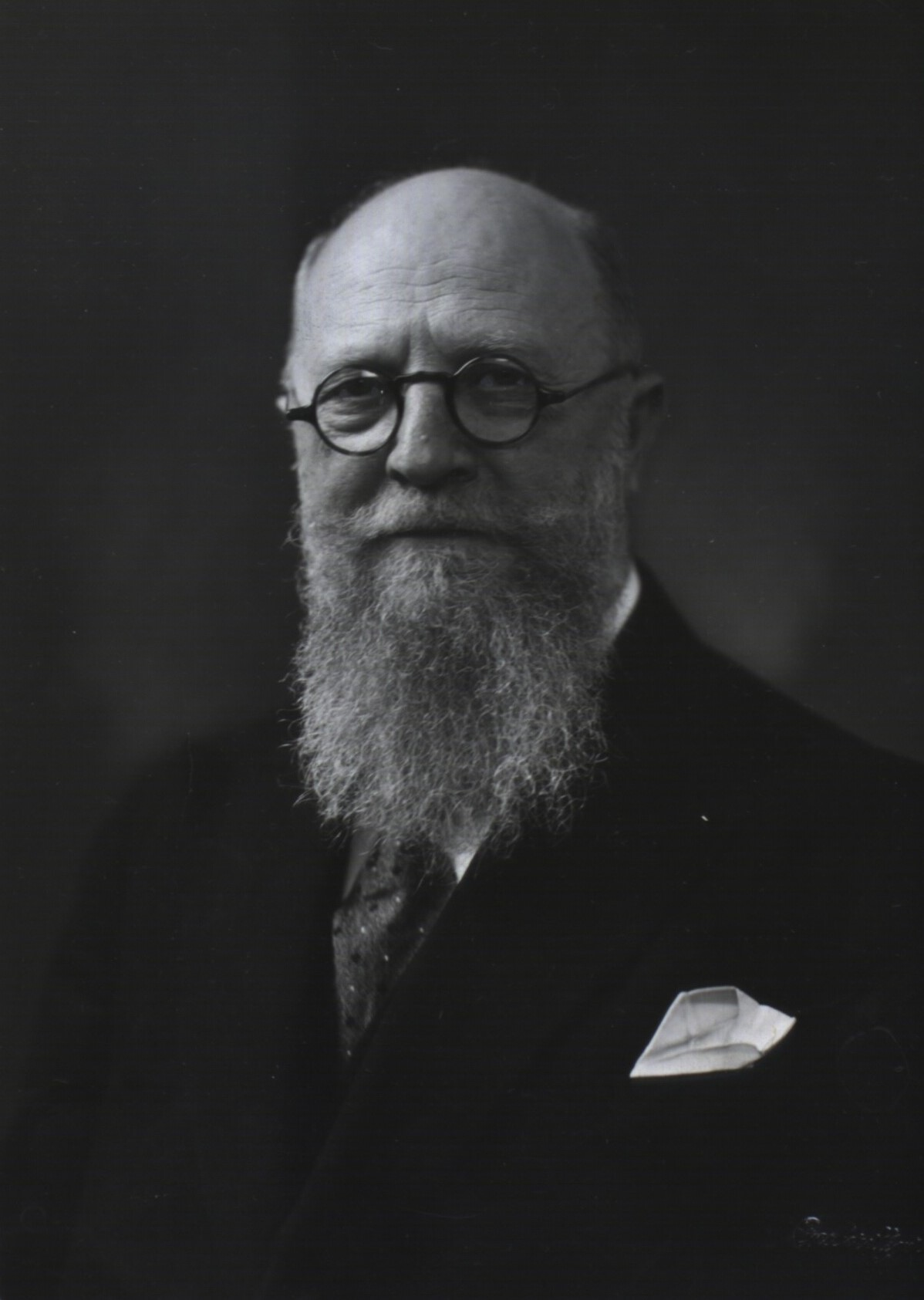 Picture of Thorvald Stauning